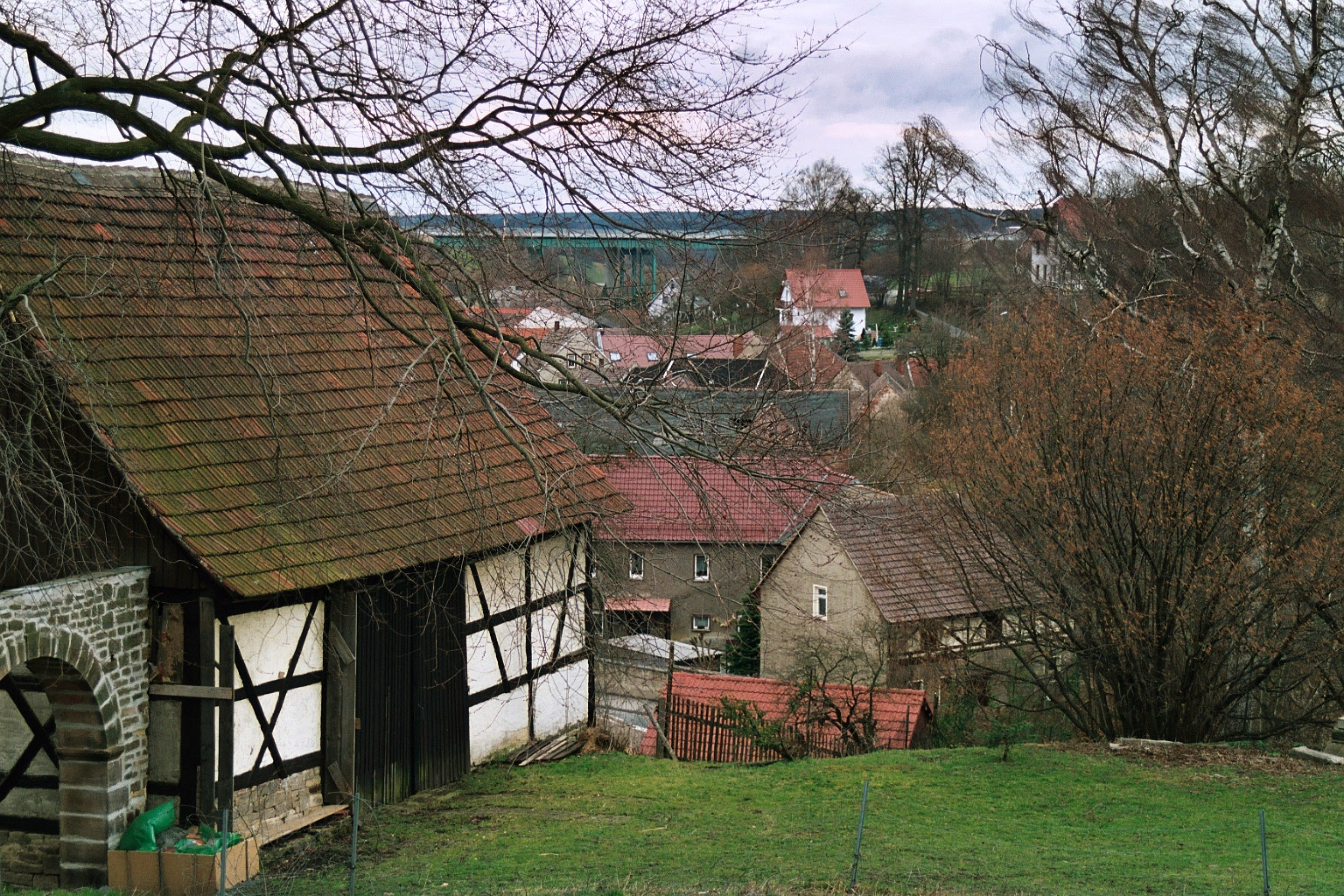 Tautendorf (Thüringen), view from the church hill